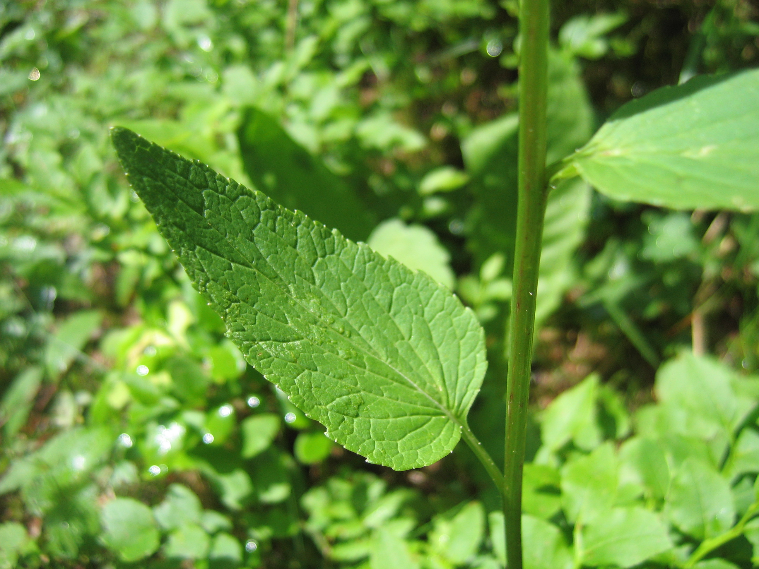 Phyteuma spicatum leaf, Tatra National Park, Poland.